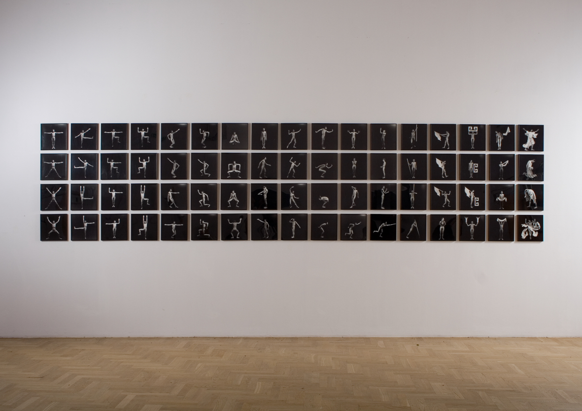 "Z cyklu archiwum gestów" by Zofia Kulik from permanent collection of Zachęta National Gallery of Art (Warsaw, Poland)